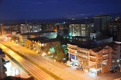 City of Fushe Kosova